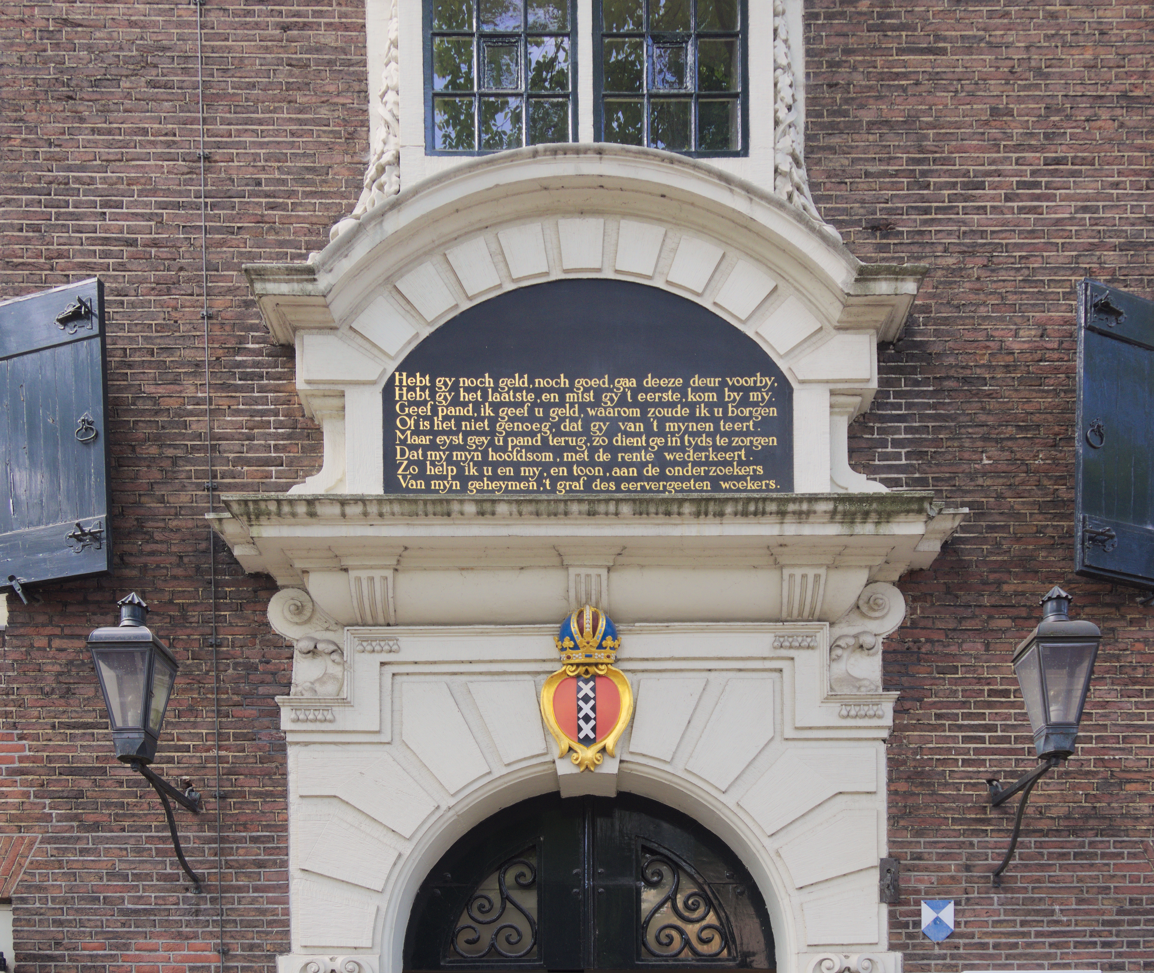 Detail of the portal of Stadsbank van Lening, Amsterdam.